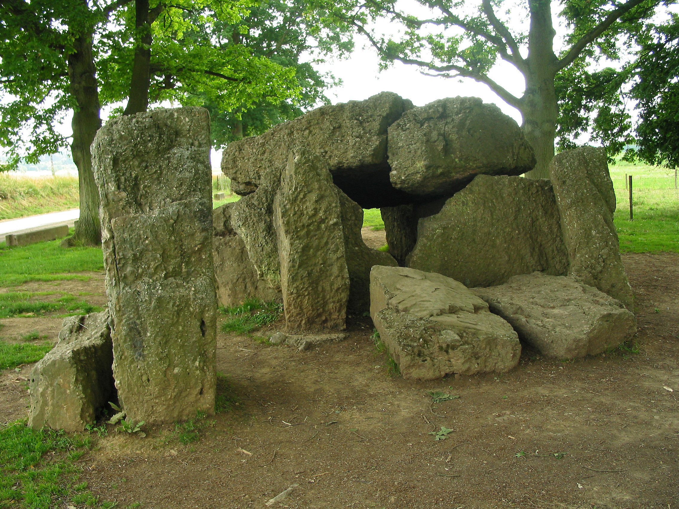 Wéris, the dolmen named dolmen Nord or Wéris I.